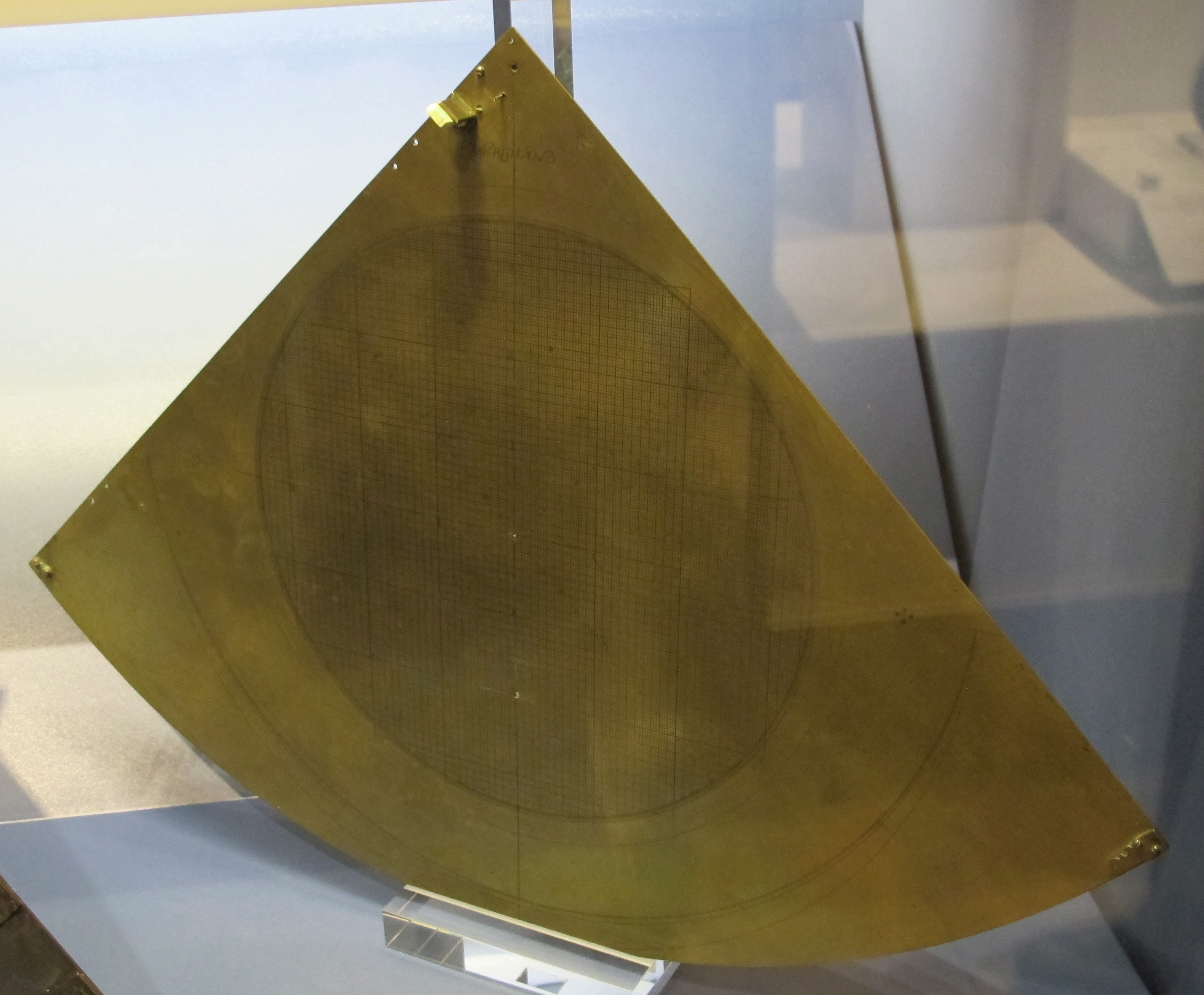 Quadrant.